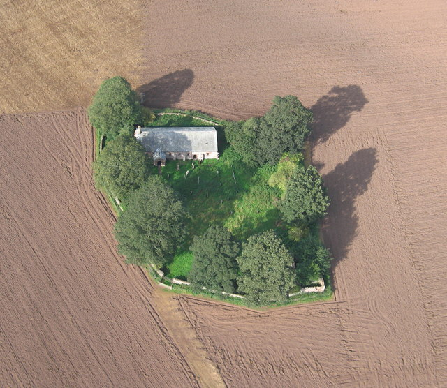 Aerial view of St Ninian's church, Brougham, Cumbria, known as Ninekirks. It is the former parish church, now redundant.